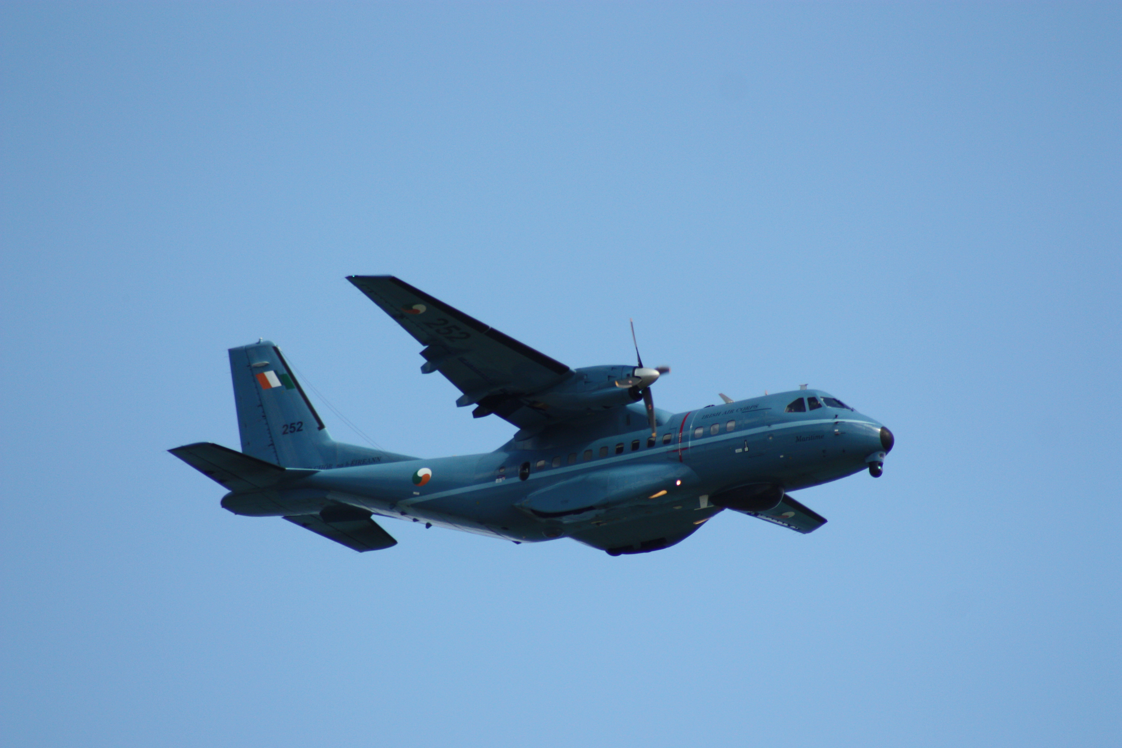 Irish Air Corps (CASA CN 235 aircraft), Harry Ferguson Festival of Flight, Newcastle, County Down, Northern Ireland, August 2010